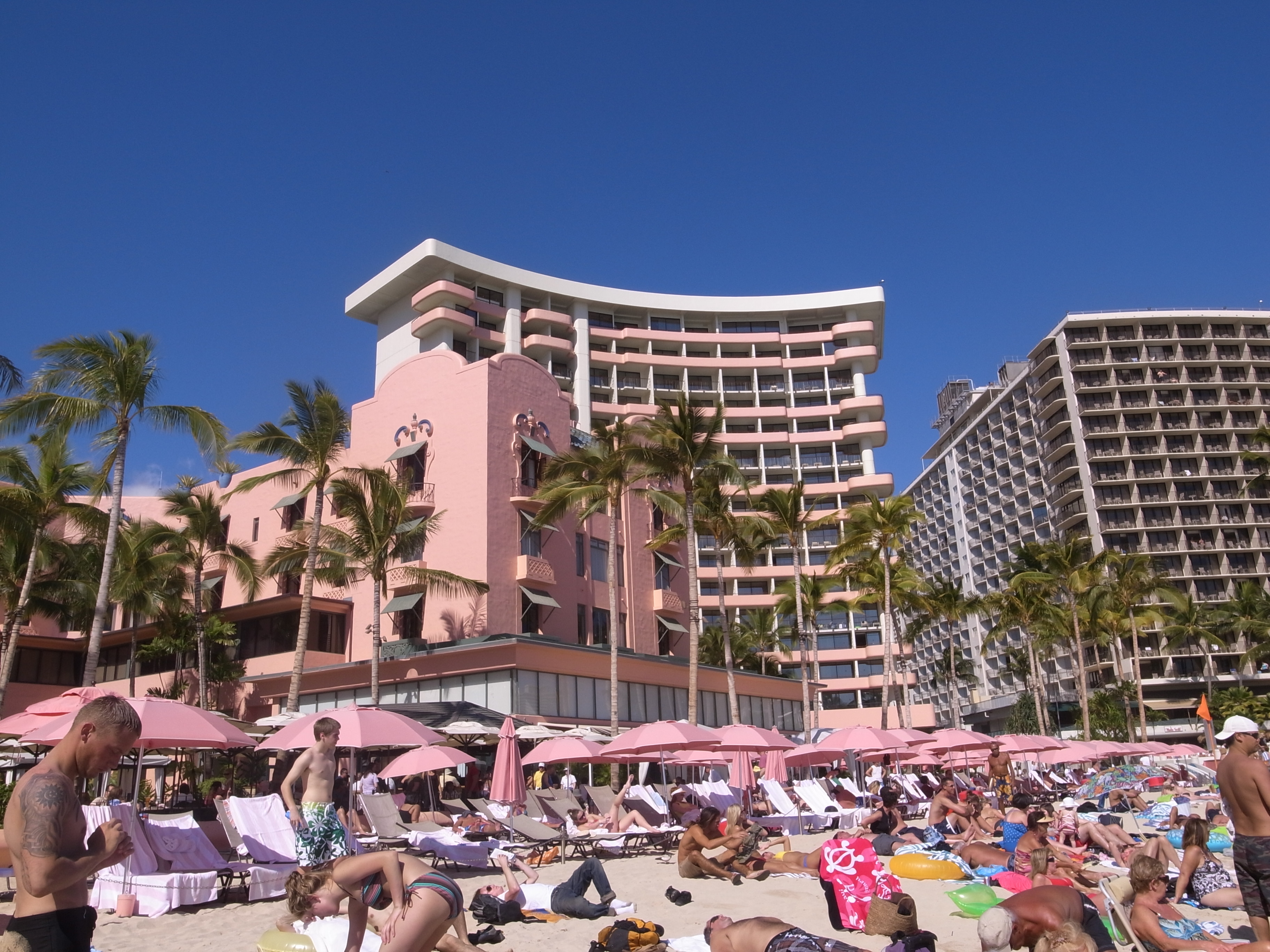 royal-hawaiian from beach.JPG